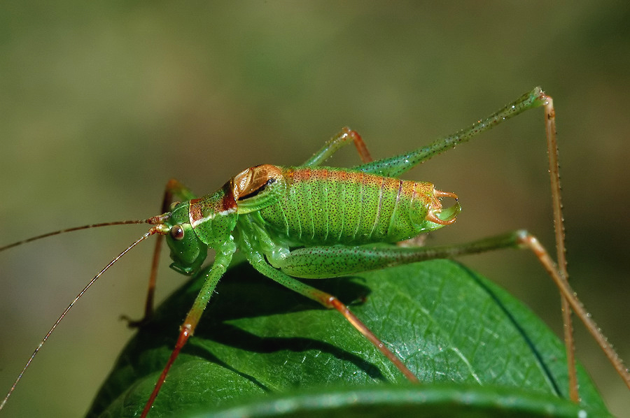 Male Leptophyes puncatissima Location: Divača, Slovenia, August 2006, Author: Blaž Šegula